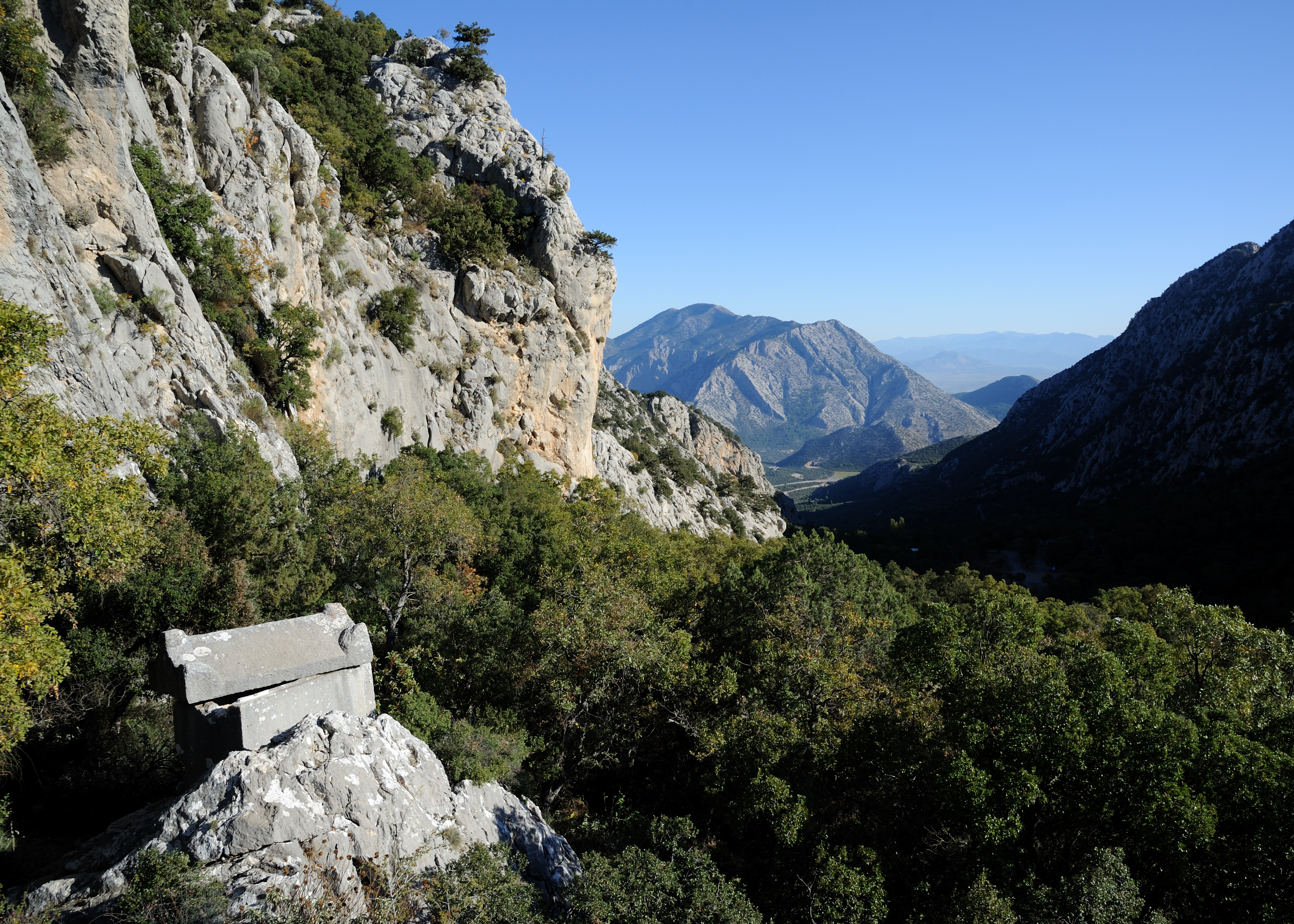 Termessos, Antalya Turkey, a Pisidian city built at an altitude of more than 1000 meters. What is known of the history commences principally at the time that Alexander the Great surrounded the city in 333 BC, which he likened to an eagle's nest and failed to conquer.